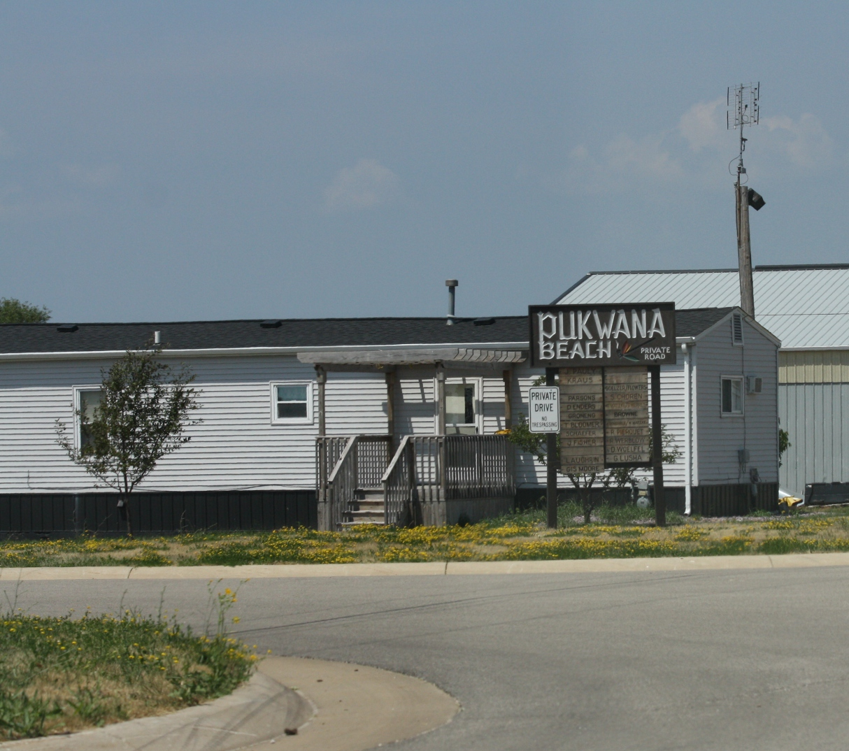 The sign for Pukwana Beach, Wisconsin.